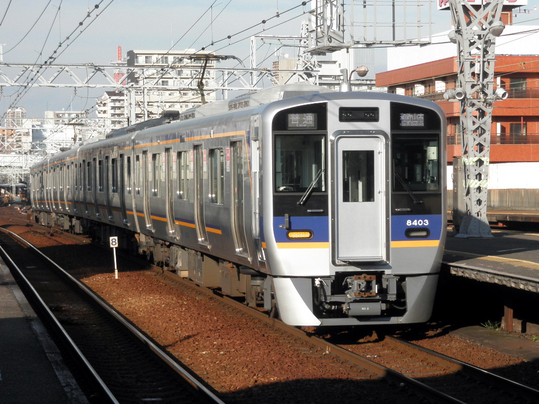 Nankai 8300 series EMU set 8303 at Shin-Imamiya Station